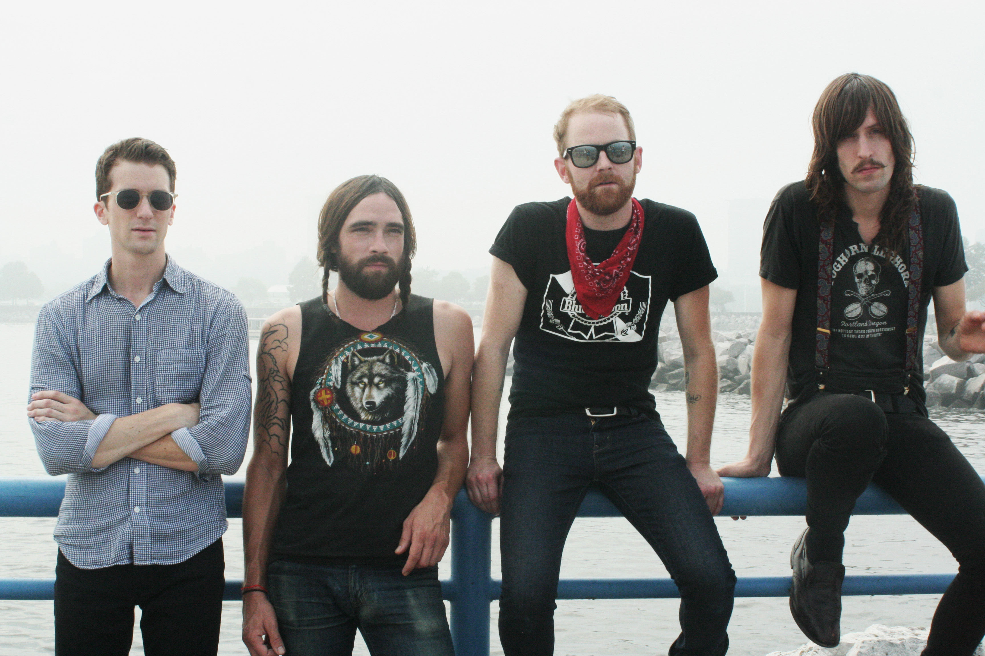 A photo of the Wildbirds, by Margaret Butler